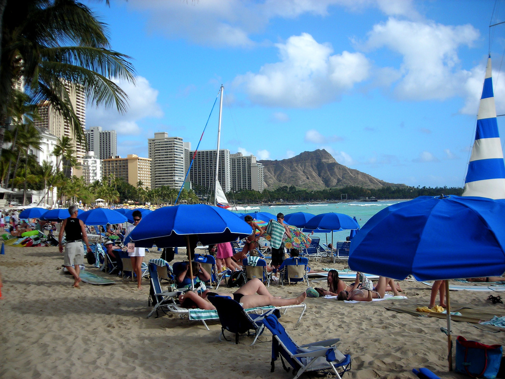 Photo by Ryan Tutmarc